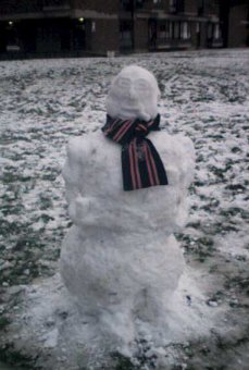 Snowman built 2002, Cambridge